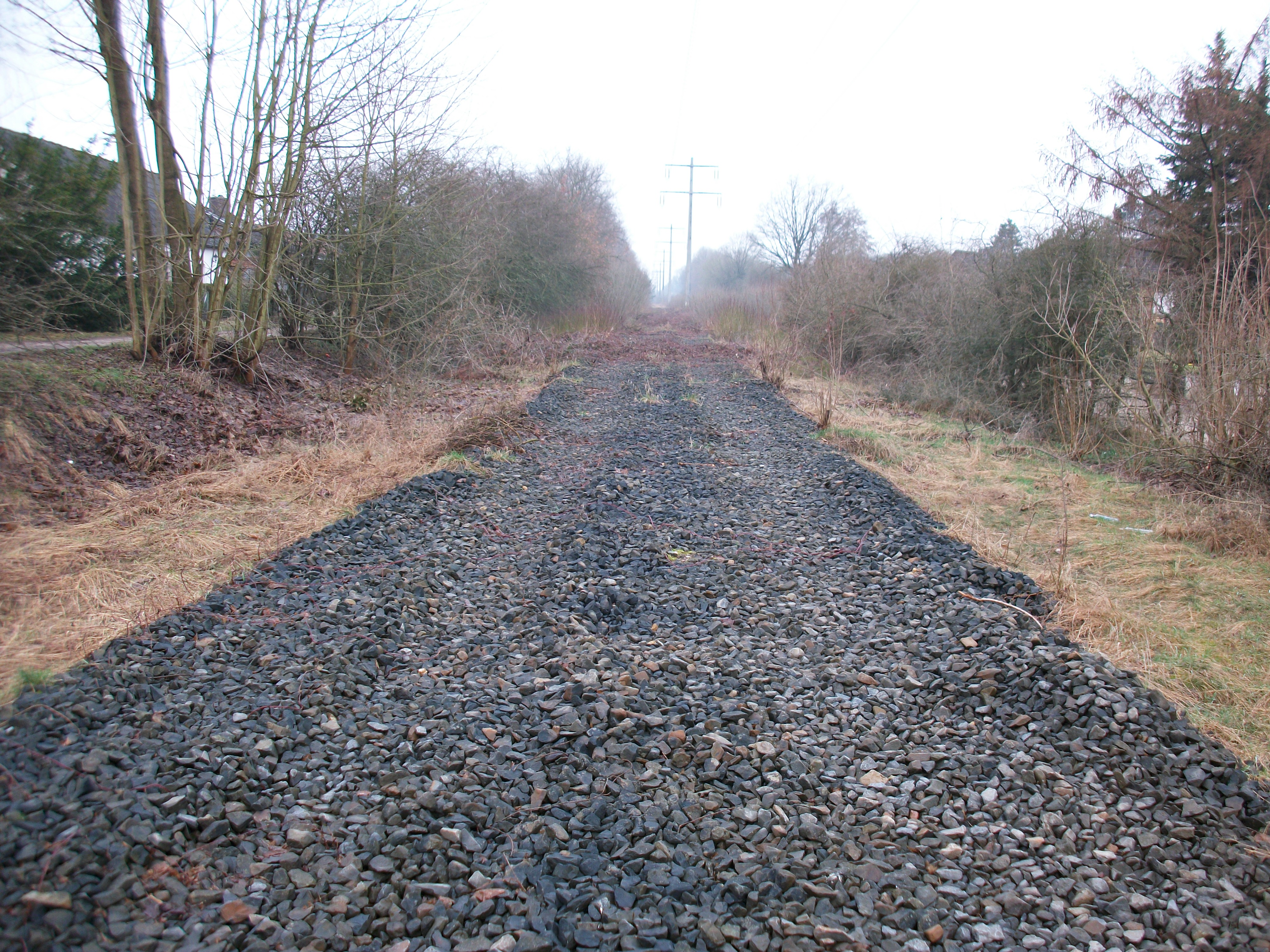 Track line out of order of the Wittenberge Buchholz Railway between Ochtmissen und Goseburg-Zeltberg.